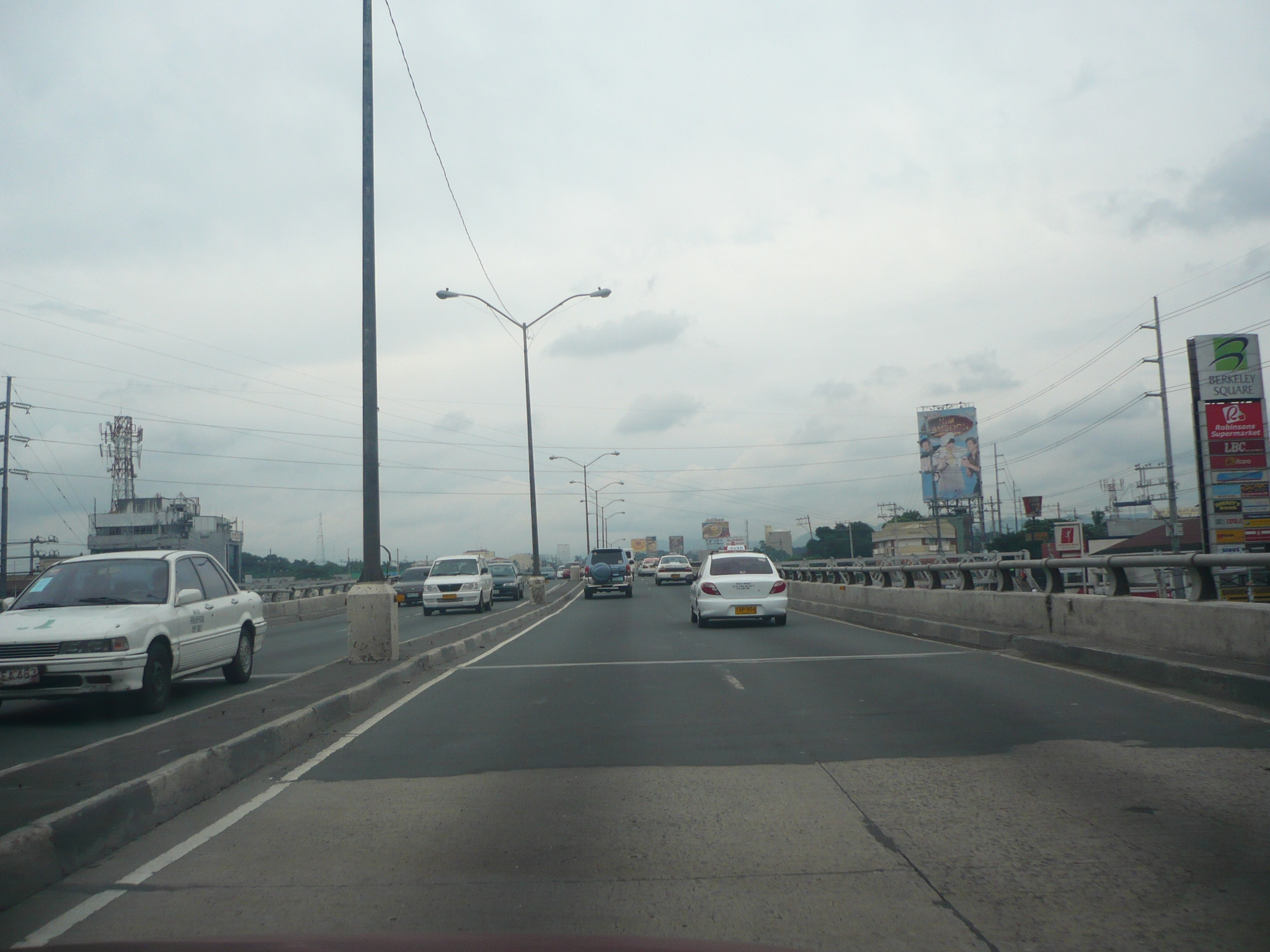 The Commonwealth Avenue along the Tandang Sora Area=